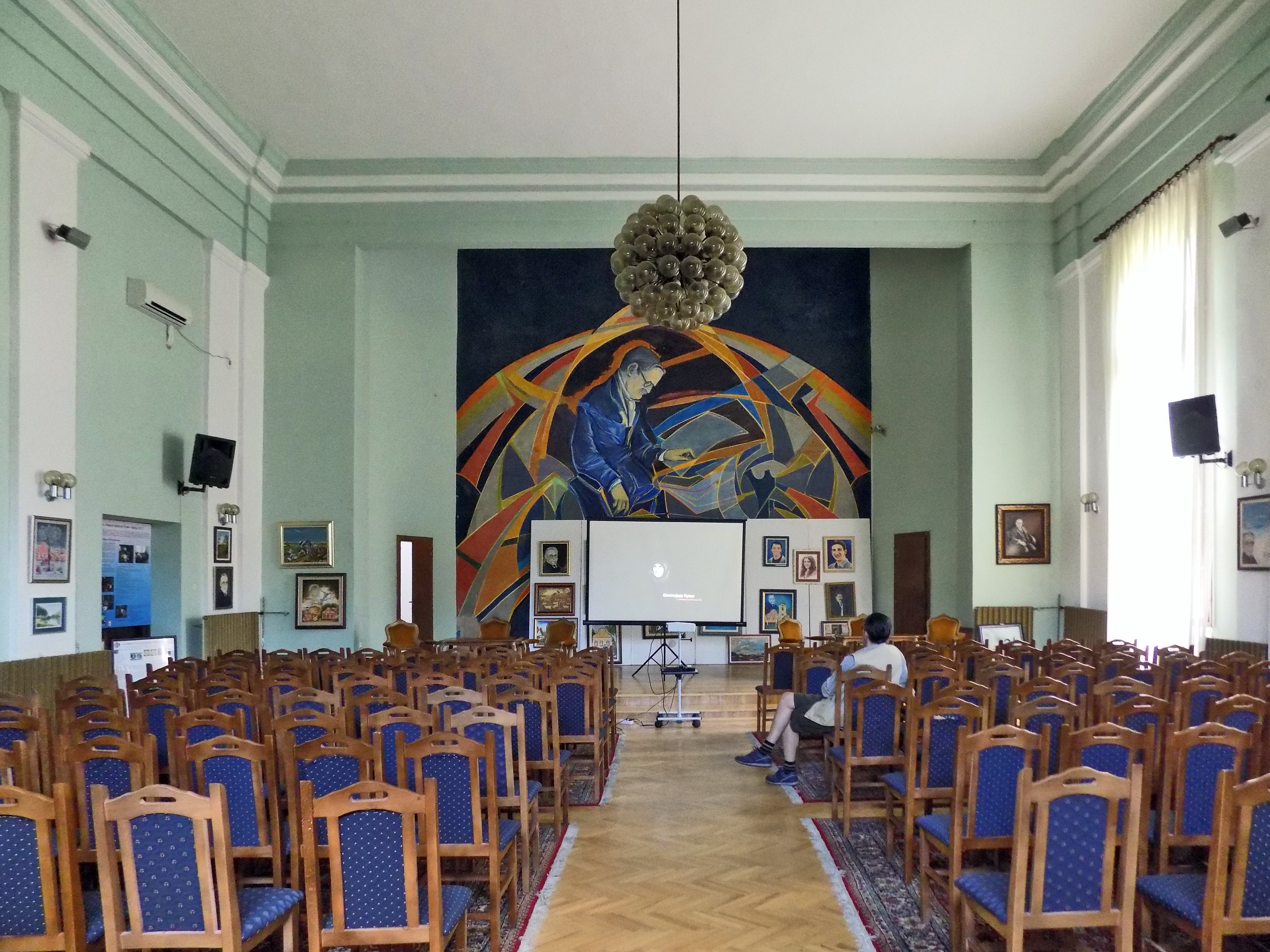 People's House of Mihajlo I. Pupin, Pupin's endowment in his native village of Idvor